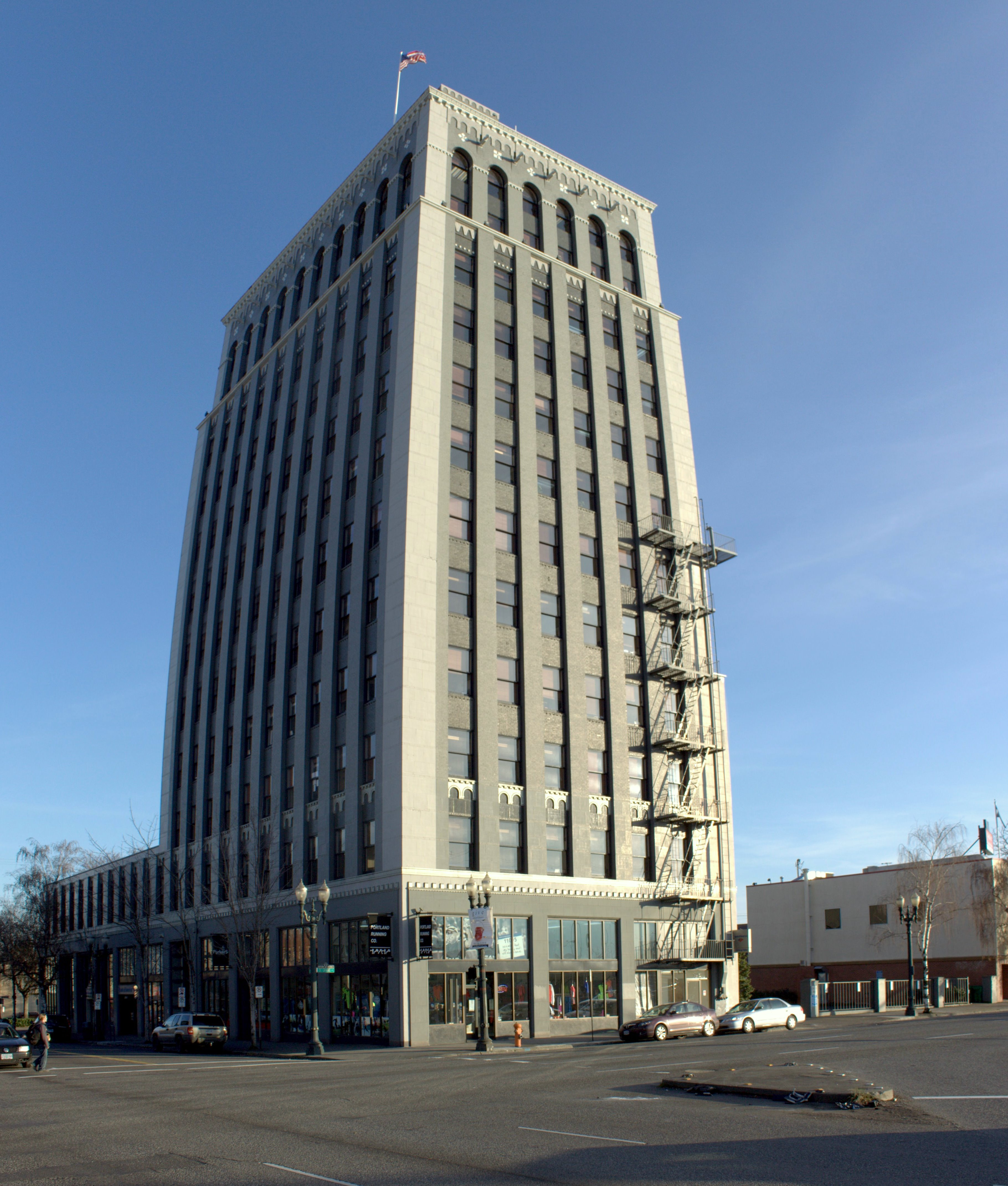 Portland, Oregon's Weatherly building, copying location of picture taken 82 years ago.